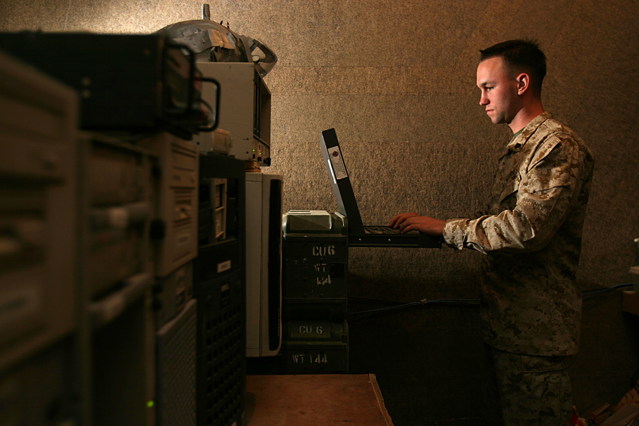 Cpl. Ryan S. Robinson, tactical data systems repairman and native of Ormond Beach, Fla., adjusts the feed on the global command and control system. Feeds from higher and lower commands come through the server and are viewed in real-time by the commanding general’s battle staff.